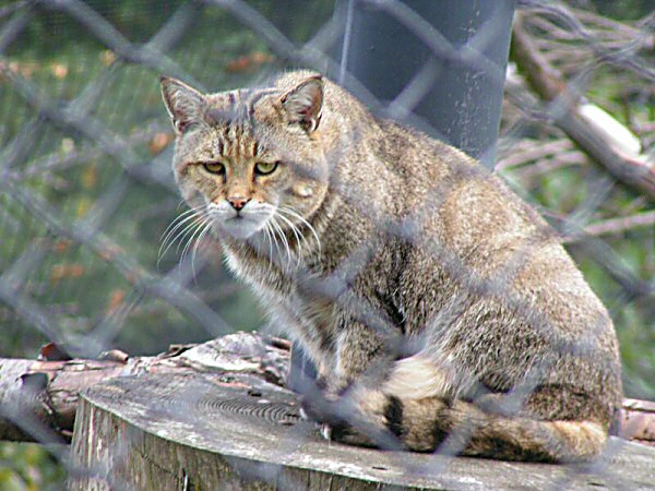 Wildcat in the Wildpark Peter und Paul in St. Gallen